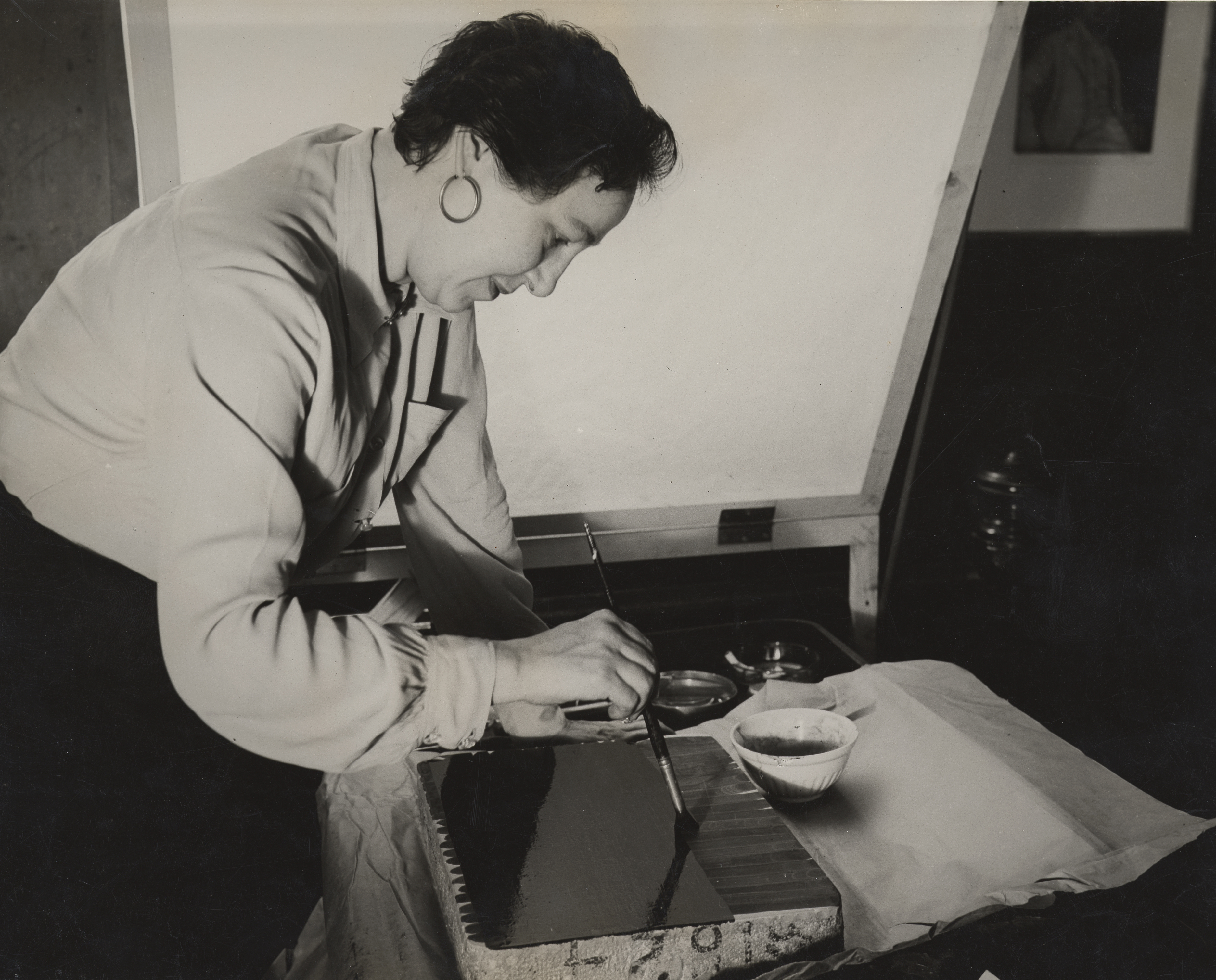 Markham working on lithographic stone. Identification on verso (handwritten and stamped): Federal Art Project W.P.A.; Photographic Division; 235 East 42nd Street; New York City Graphic Arts, Miss Kyle working at the lithograph stone, 6 E. 14th St., N.Y.C.; Date: 6/10/37; Negative No.: 2326-1; Photographer: Herman.